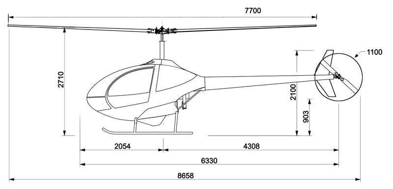 cicare dig